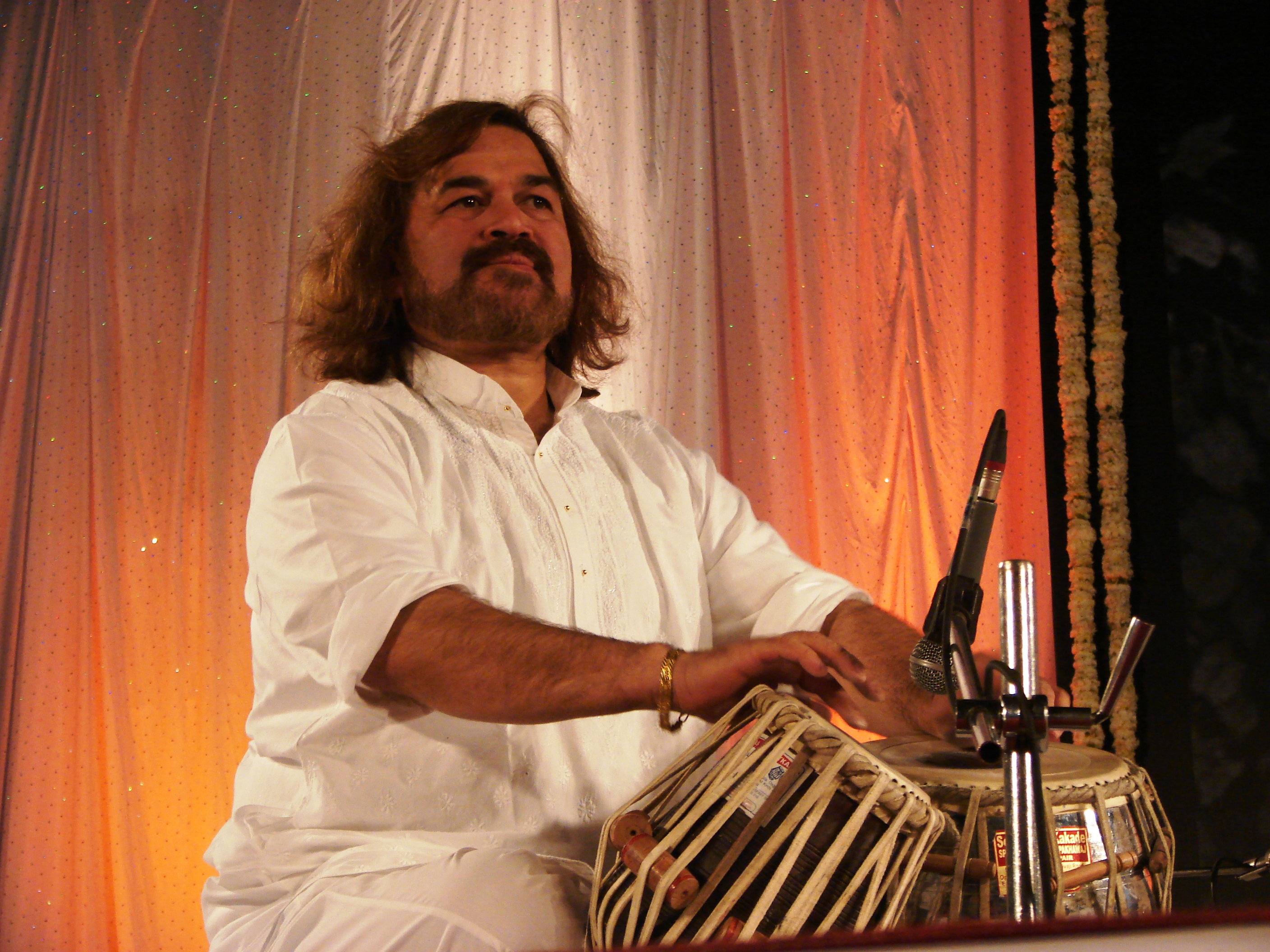 Vijay Ghate performing in Arghya 2011